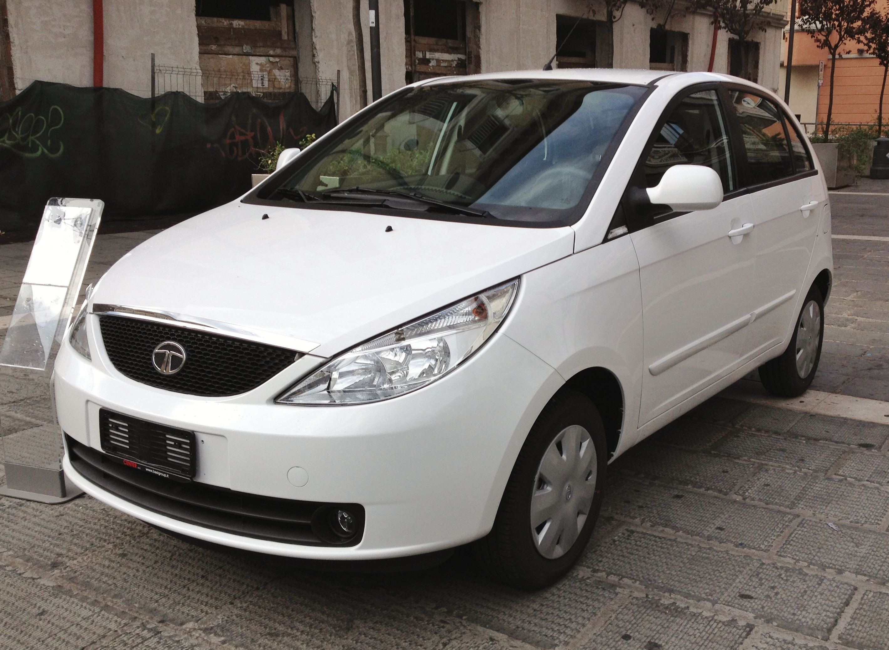 2012 Tata Indica Vista Safire front